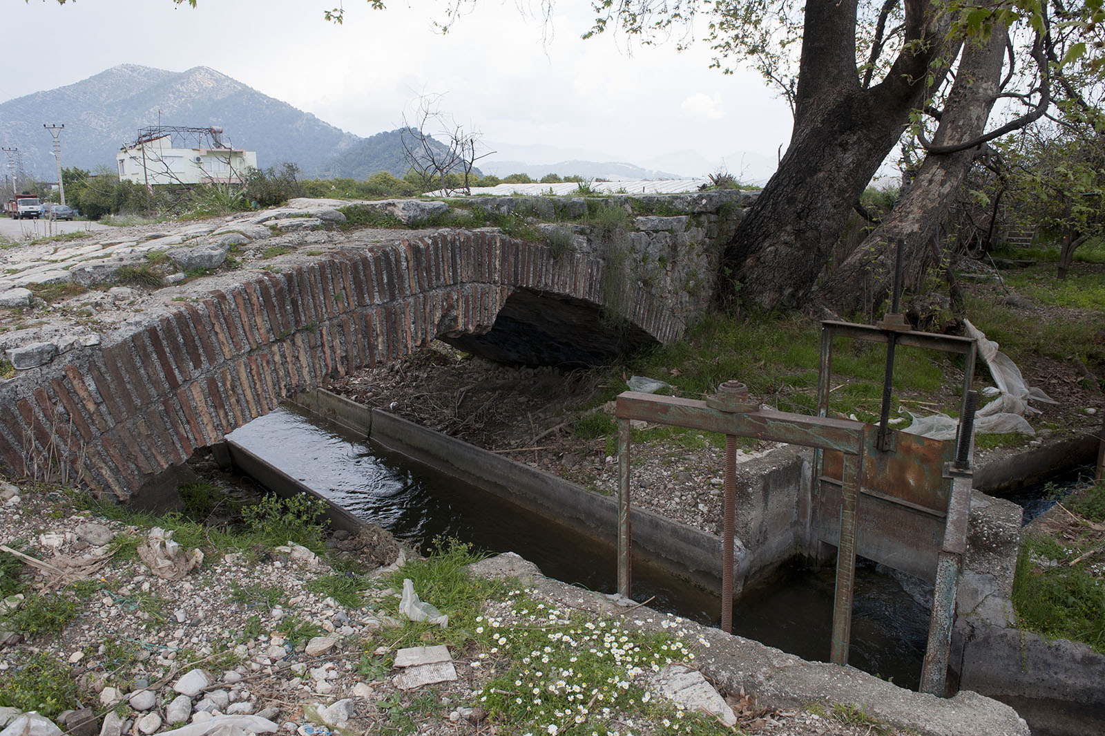 It does not quite feel like a bridge, more like an elevated road, but then again, the terrain must have been very different here in Roman times. The Wikipedia has about this bridge: "The Limyra Bridge (in Turkish: Kırk Göz Kemeri, "Bridge of the Forty Arches") is a late Roman bridge in Lycia, in modern south-west Turkey, and one of the oldest segmented arch bridges in the world. The 360 m (1,181.1 ft) long bridge is located near the ancient city of Limyra, and spans the Alakır Çayı river over 26 segmental arches. These arches, with a span-to-rise ratio of 5.3:1, give the bridge an unusually flat profile, and were unsurpassed as an architectural achievement until the late Middle Ages. Despite its unique features, the bridge remains relatively unknown, and only in the 1970s did researchers from the Istanbul branch of the German Archaeological Institute carry out field examinations on the site."